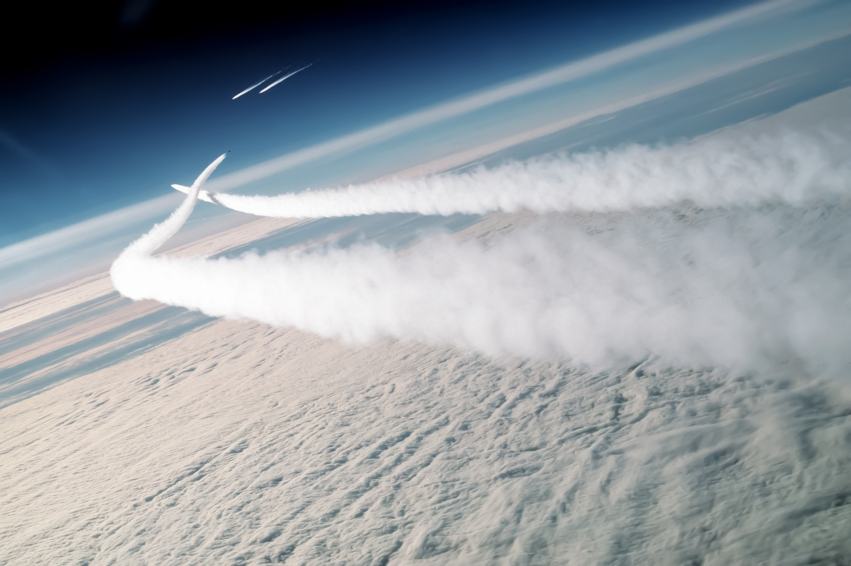 ID: DF-ST-90-05759, Command Shown: F3231 - Alaska, USA, Two Soviet MiG-29 aircraft en route to an air show in British Columbia, Canada, are intercepted by F-15 Eagle aircraft of the 21st Tactical Fighter Wing. The Soviet MiG-29s are, for the first time, traveling to the Abbotsford International Airshow in Abbotsford, BC, Canada, to participate in the August 1989 airshow. The USAF F-15 Eagle interceptors actively guarding North American and United States of America's airspace are with the 21st Tactical Fighter Wing, headquartered at Elmendorf Air Force Base (AFB), Alaska, USA.